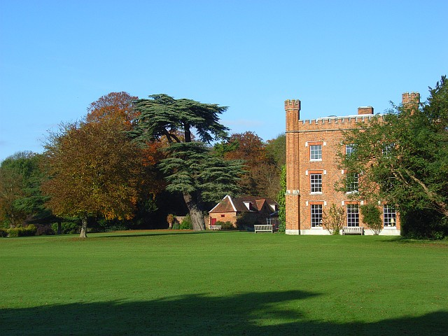 Shottesbrooke Park A view of the 16th century manor house and gardens from the churchyard.